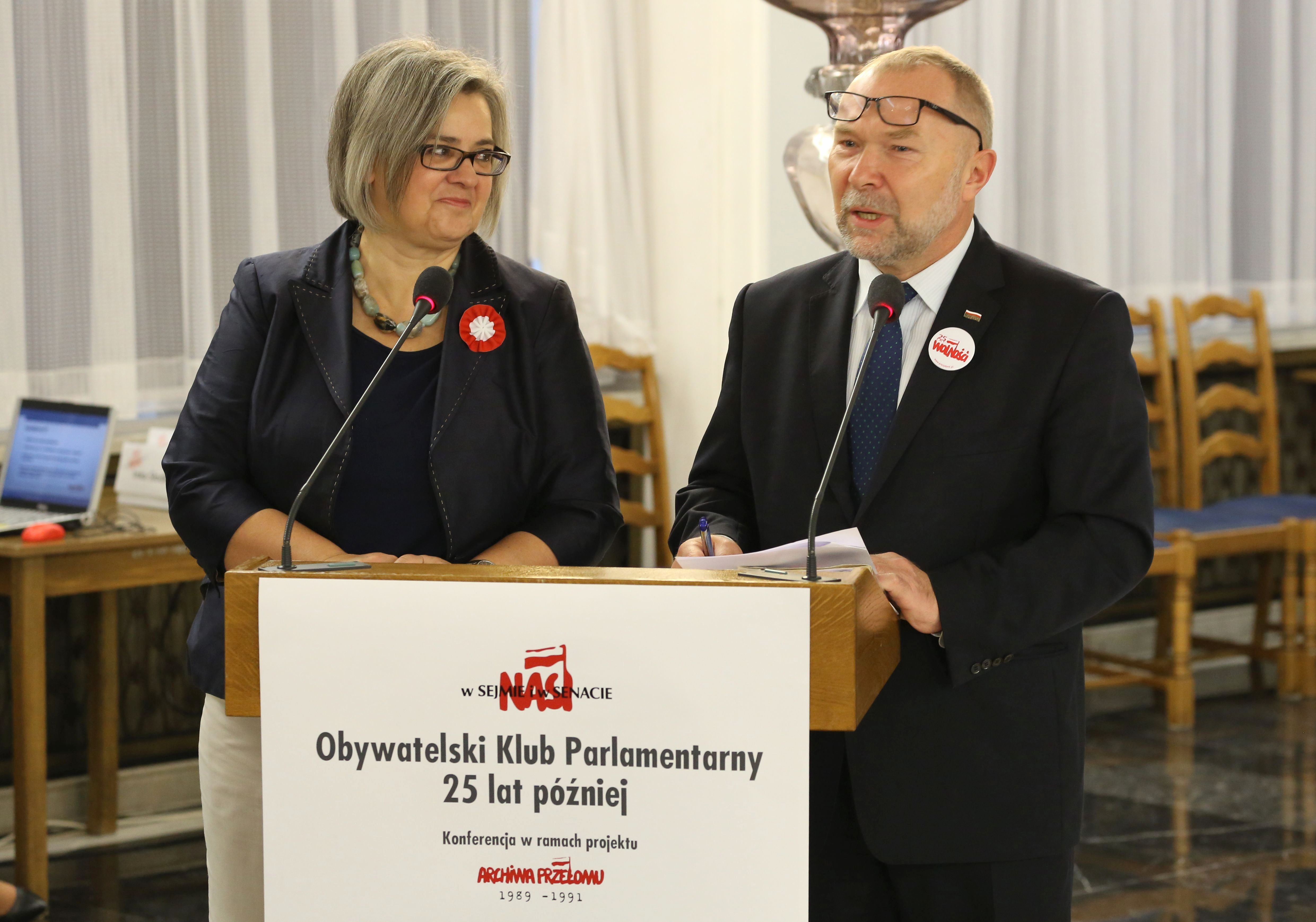 Ewa Polkowska and Jacek Michałowski during the conference "Our people in the Sejm and the Senate - Civic Parliamentary Causus 25 years later" in the Column Hall at the Sejm